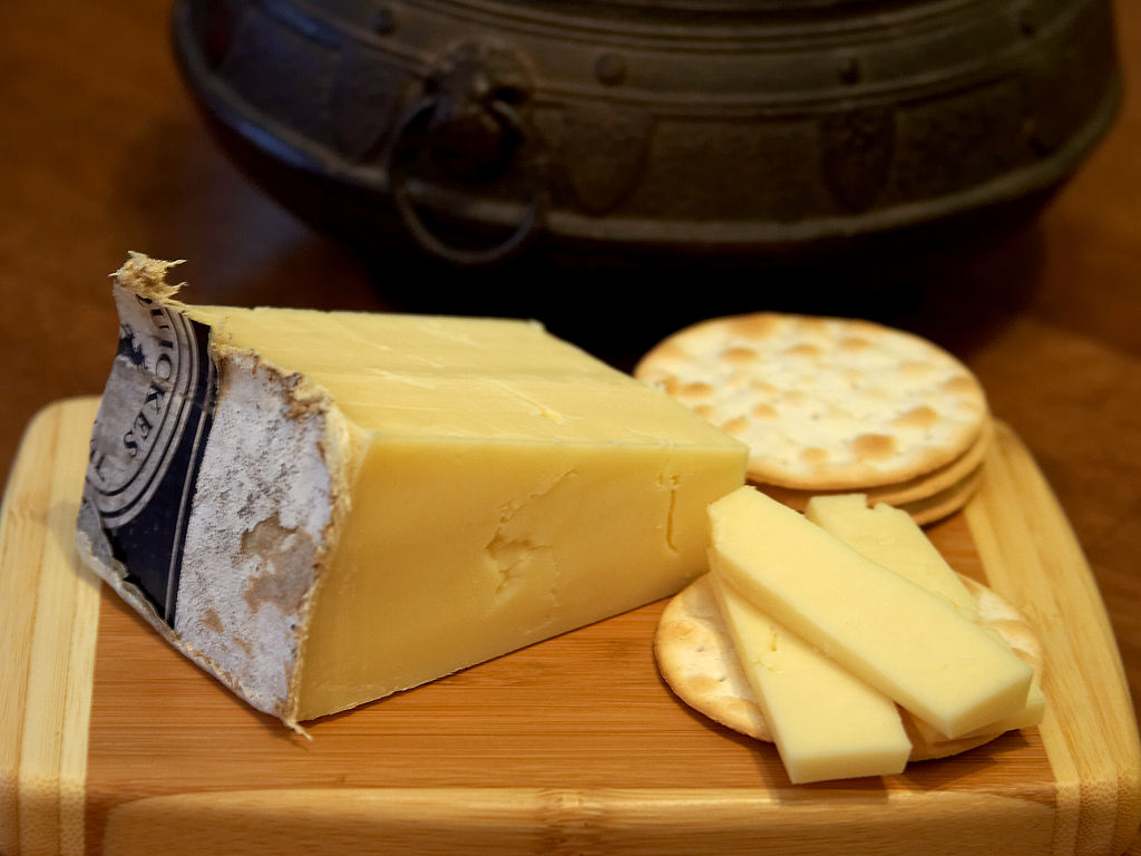 Quicke Bandaged Wrapped Cheddar .